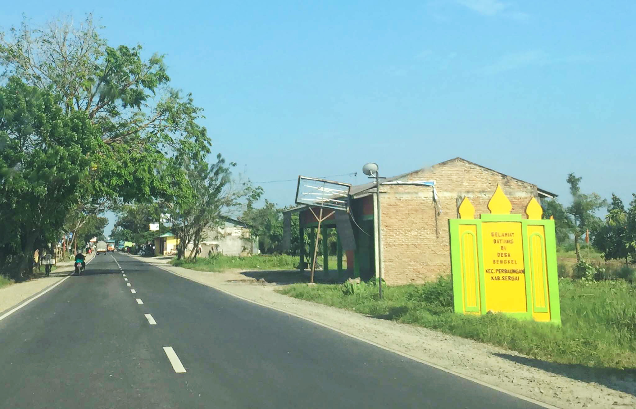 Welcome gate to Bengkel, Perbaungan, Serdang Bedagai